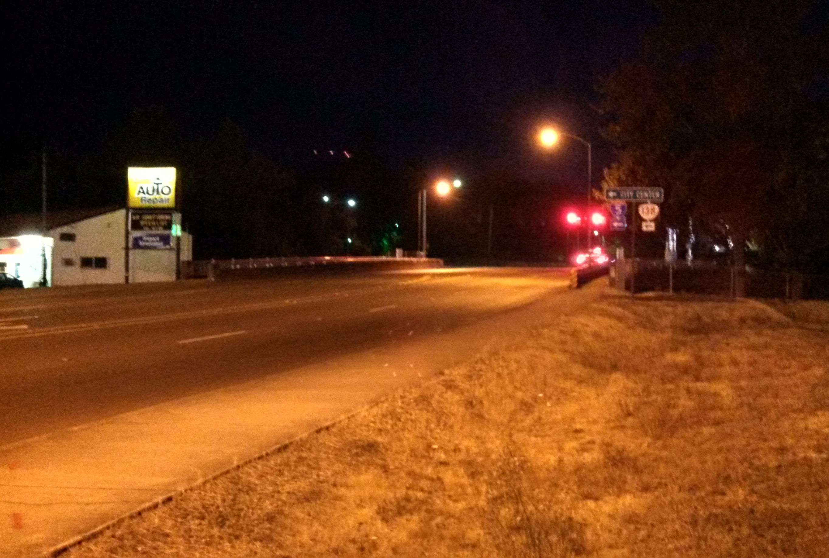 Oregon Route 138 looking west to the intersection with Oregon Route 99 in Roseburg, Oregon.